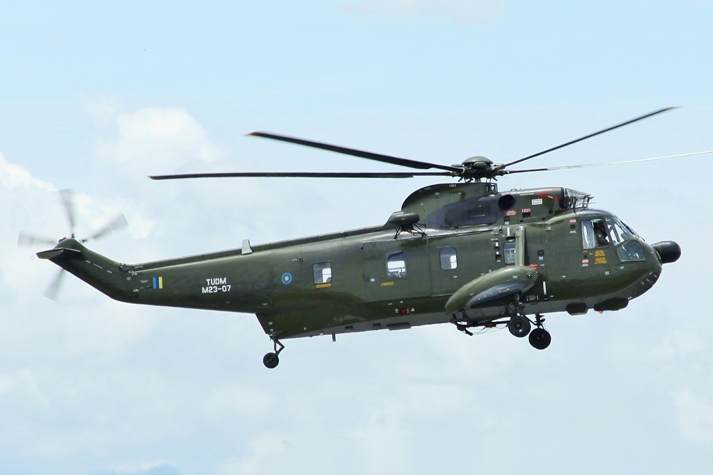 Nuri helicopter